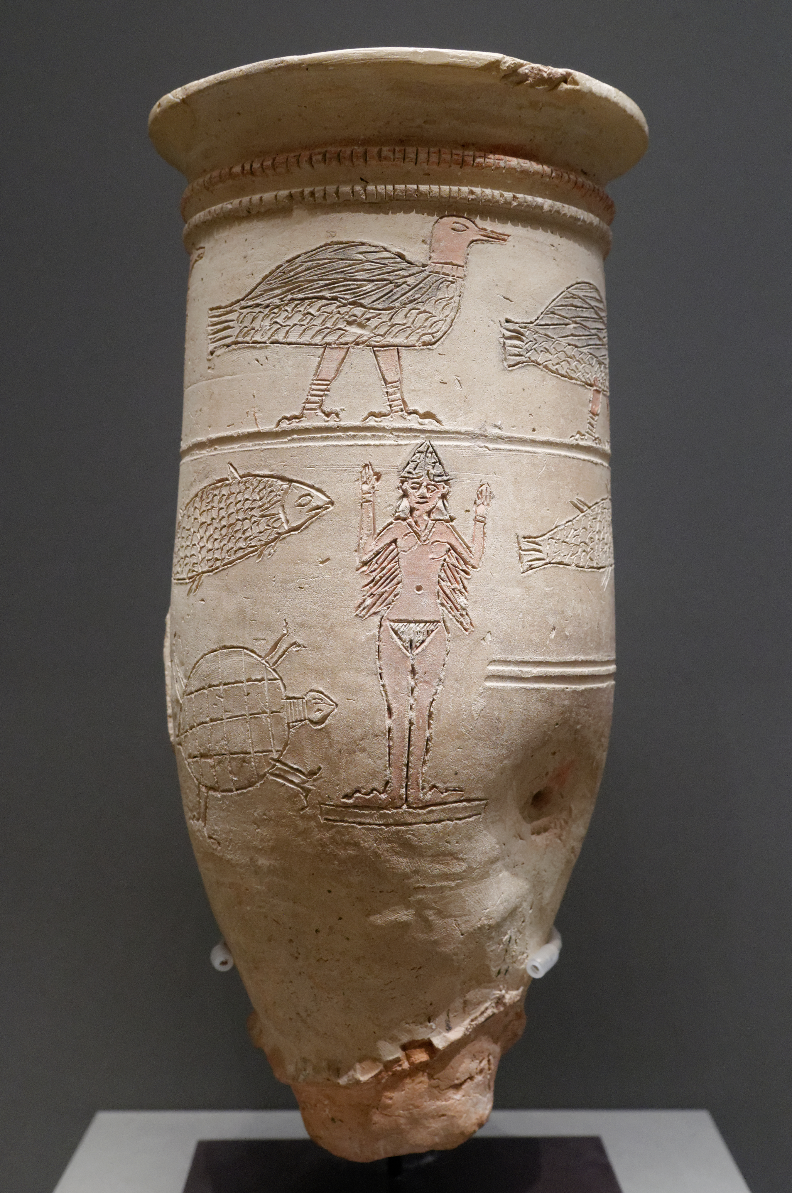 Naked Ishtar wearing the horned tiara, surrounded by birds, fish, a bull and a tortoise.